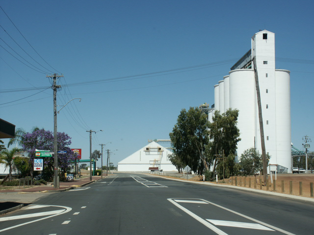 Tammin, Western Australia townsite from Great Eastern Highway.